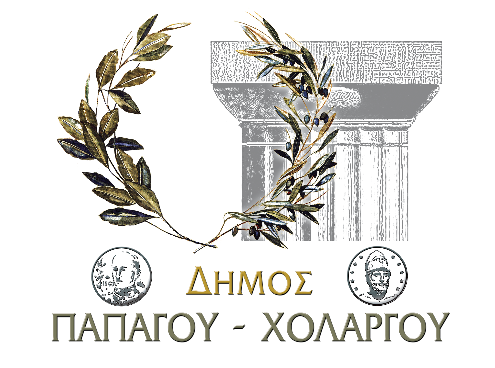 Λογότυπο Δήμου Παπάγου-Χολαργού